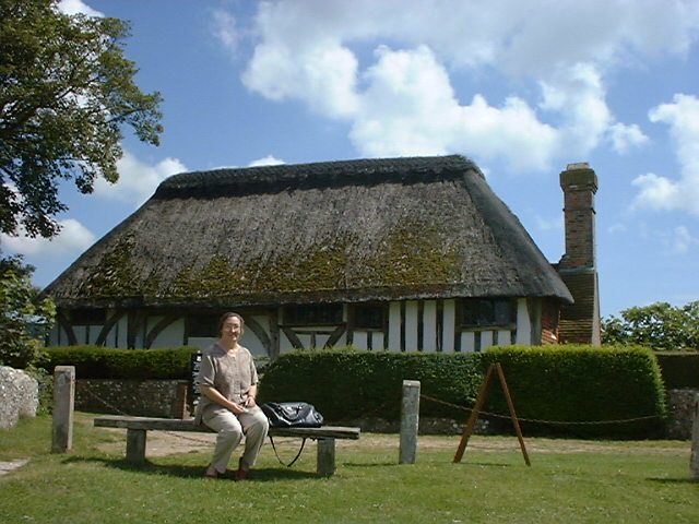 Alfriston Clergy House in Alfriston, East Sussex at OK, it is a blatant holiday snap but at least it is legal (unlike a recent upload of the same subject to en:).